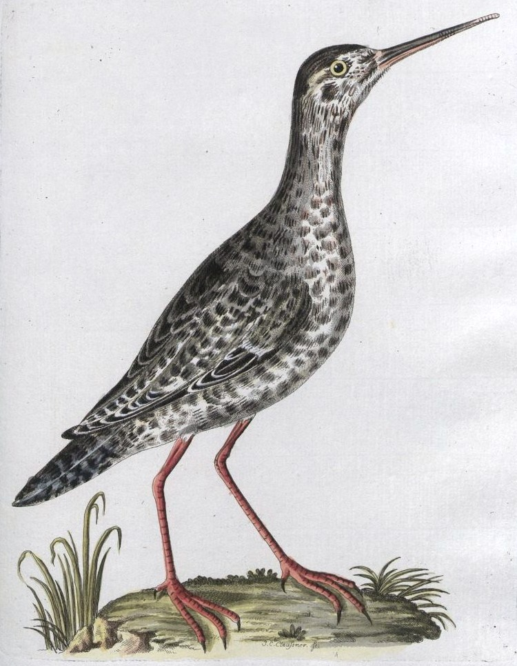 Scolopax calidris = Tringa totanus (Common redshank)